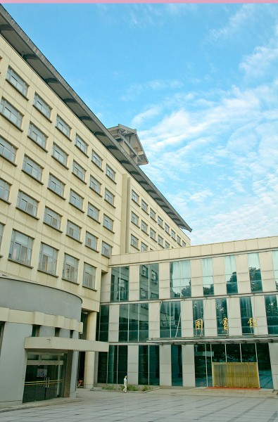 Library of CAU